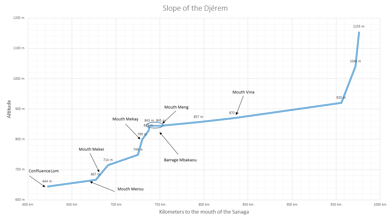 Slope of the Djerem River; Data source * J. C. Olivry, Fleuves et rivières du Cameroun, collection « Monographies hydrologiques », no 9, ORSTOM, Paris, 1986